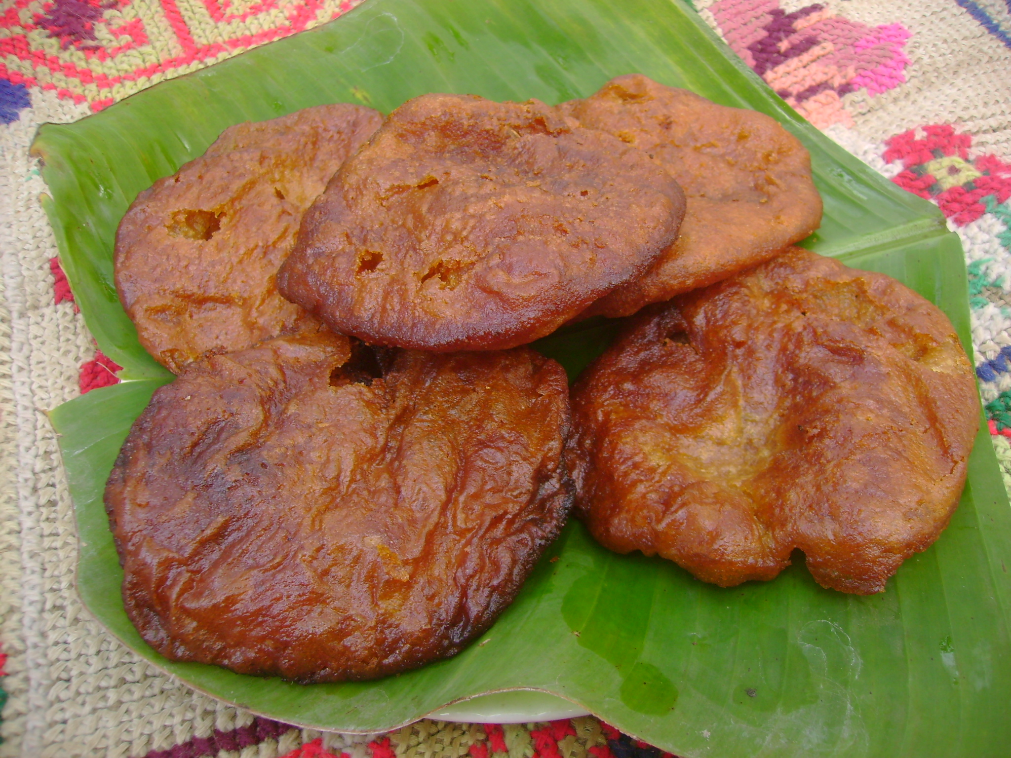 Arisha Pitha